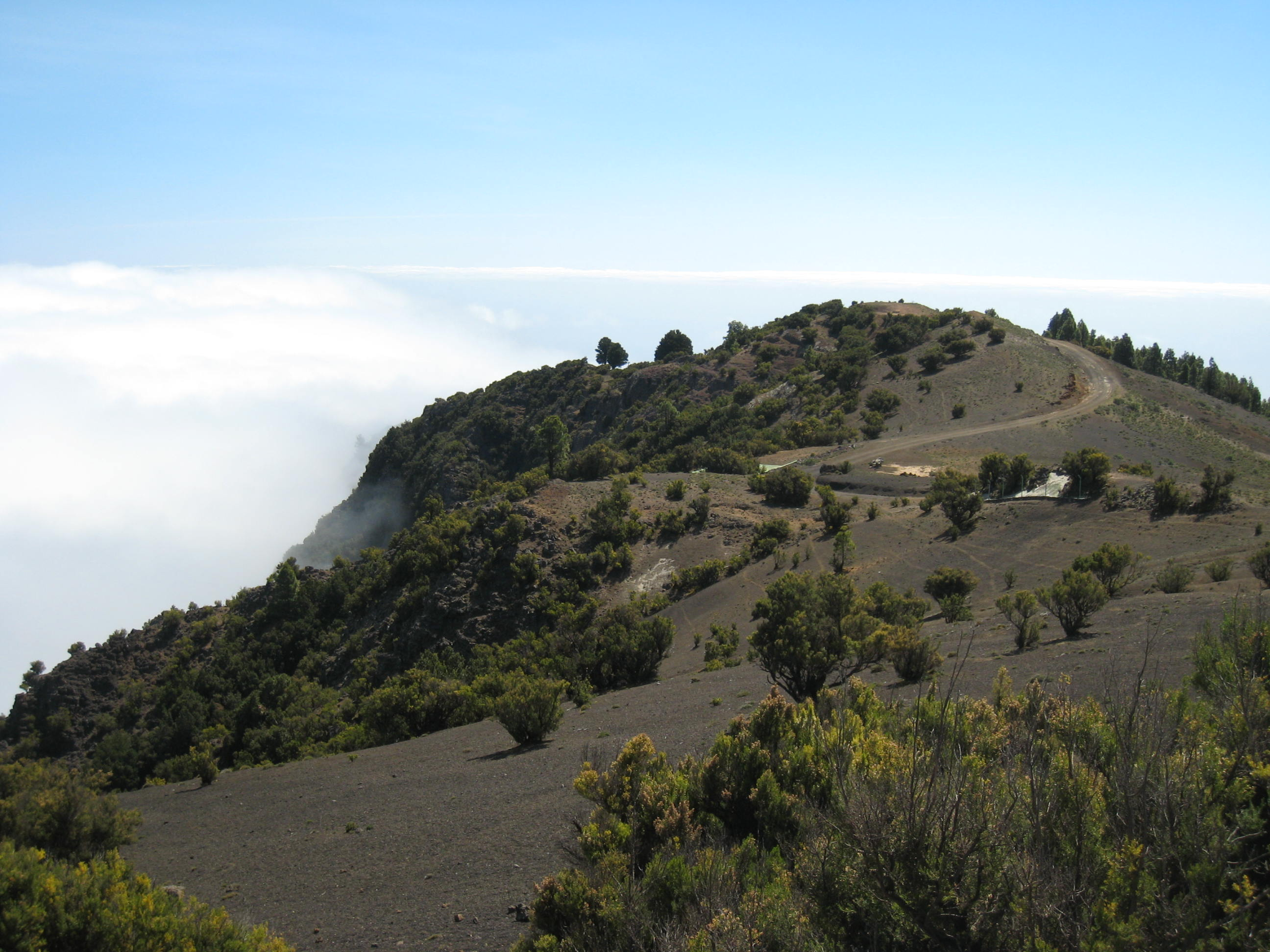 Malpaso, El Hierro, Canary Islans, Spain